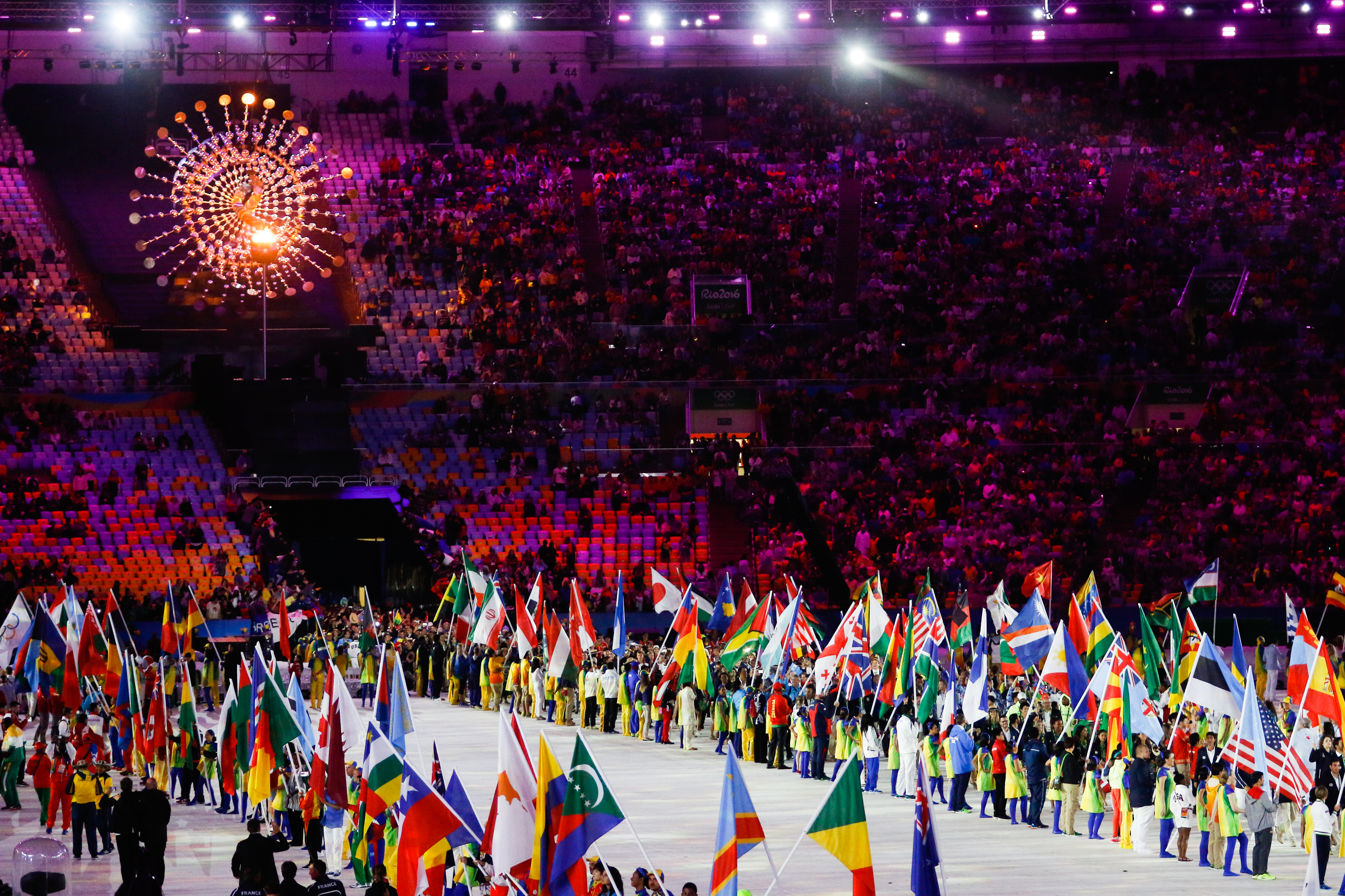 Rio de Janeiro - Cerimônia de encerramento dos Jogos Olímpicos Rio 2016, no Maracanã (Fernando Frazão/Agência Brasil)